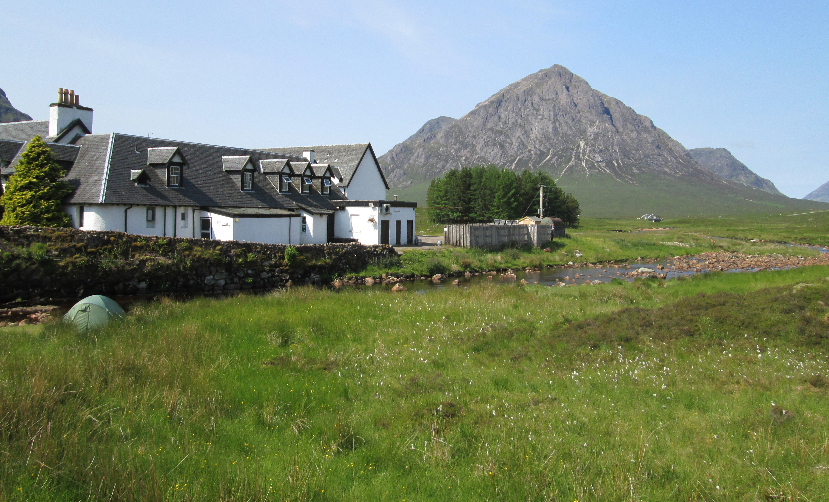 View from the West Highland Way at the entrance to Glen Coe, looking past the Kings House Hotel towards Buachaille Etive Mòr.